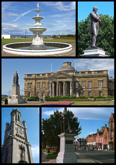 Clockwise from top-left: Place De Saint-Germain-en-Laye, Robert Burns statue, Ayr, Wellington Square Gardens, Ayr, The Wallace Tower, Ayr and Burns Statue Square, Ayr.